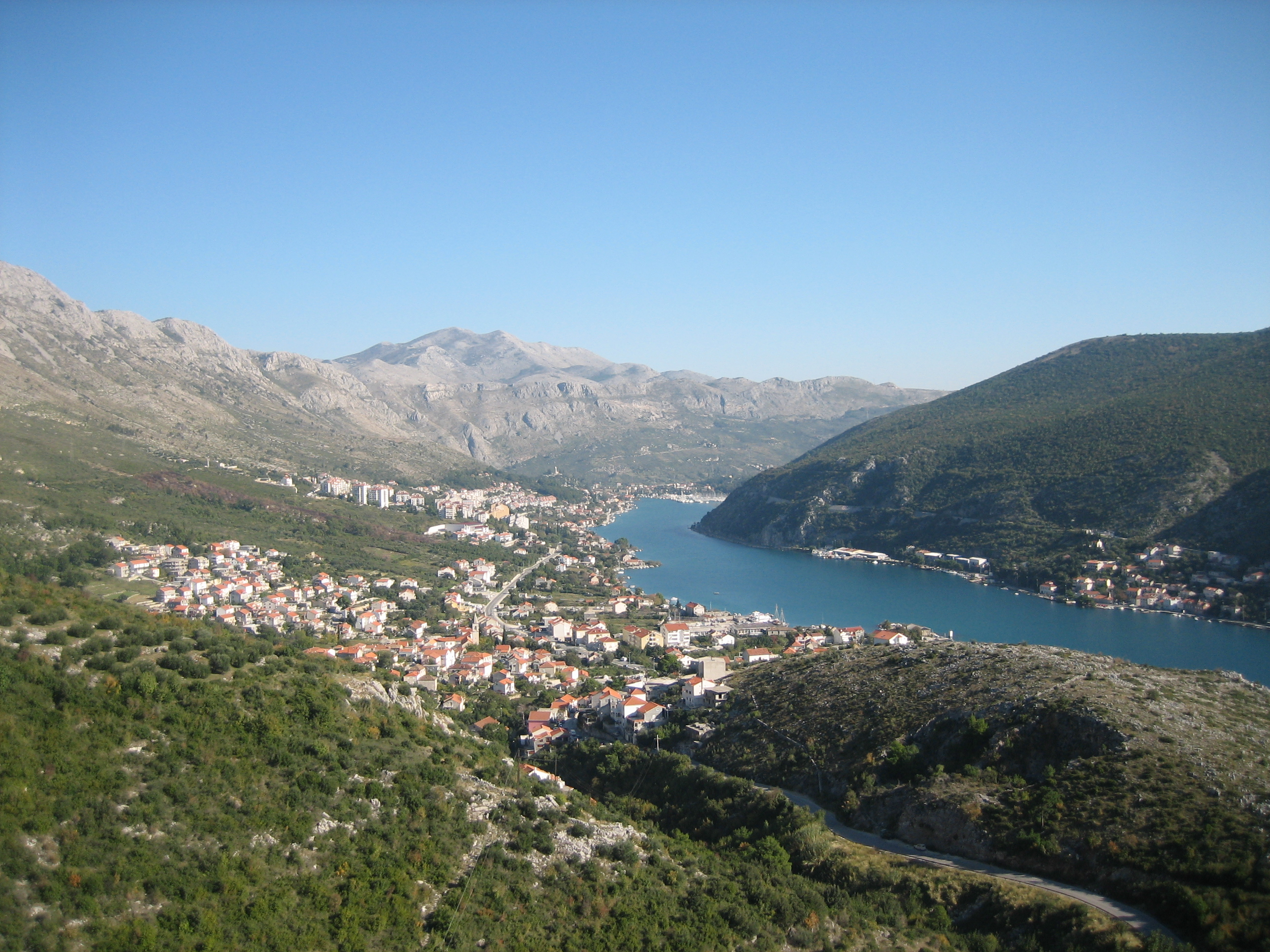 Part of Dubrovnik called Rijeka dubrovačka